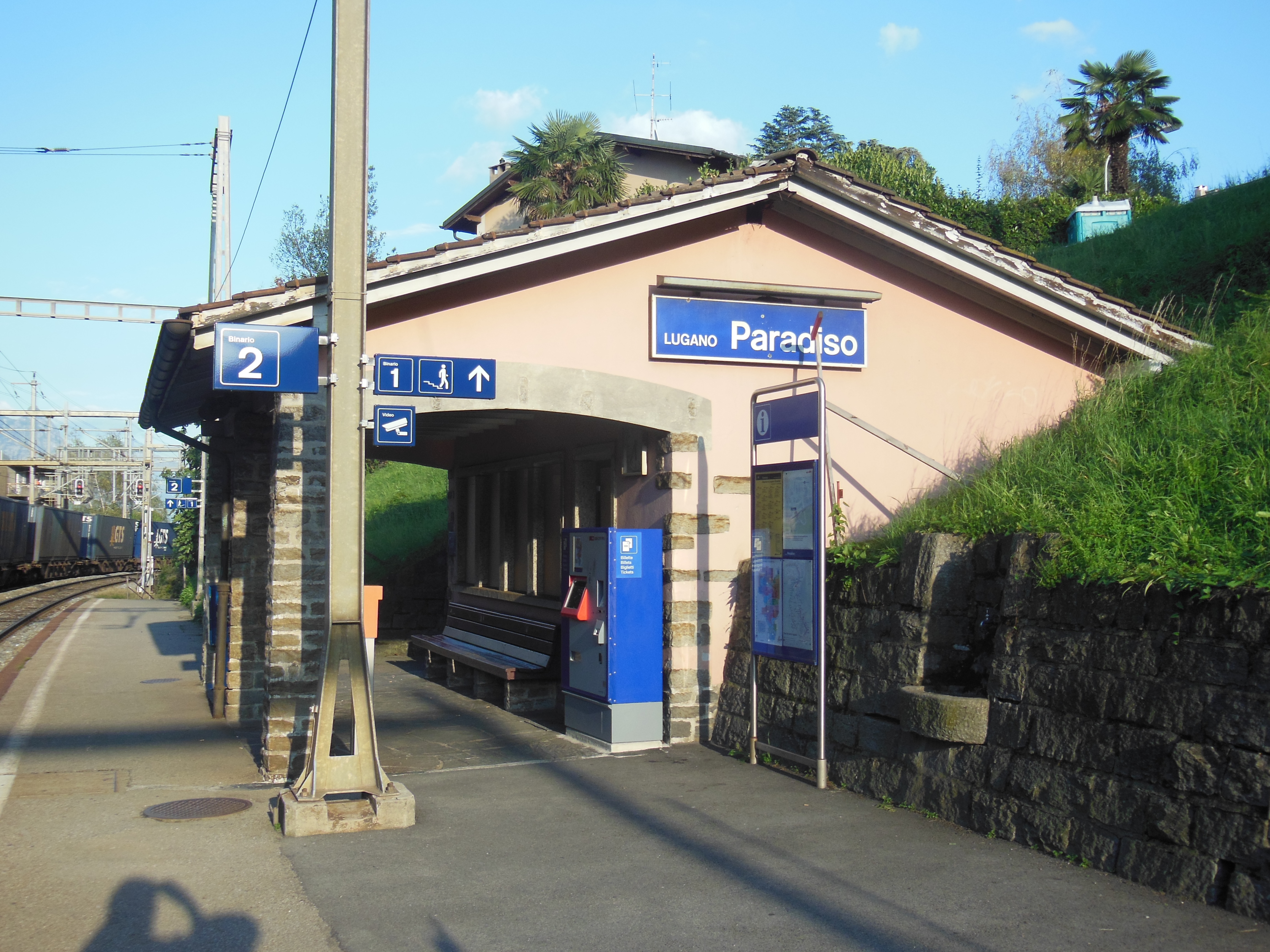 The west side (Lugano bound) buildings of Lugano-Paradiso railway station in Switzerland. For more information, see Lugano-Paradiso railway station.